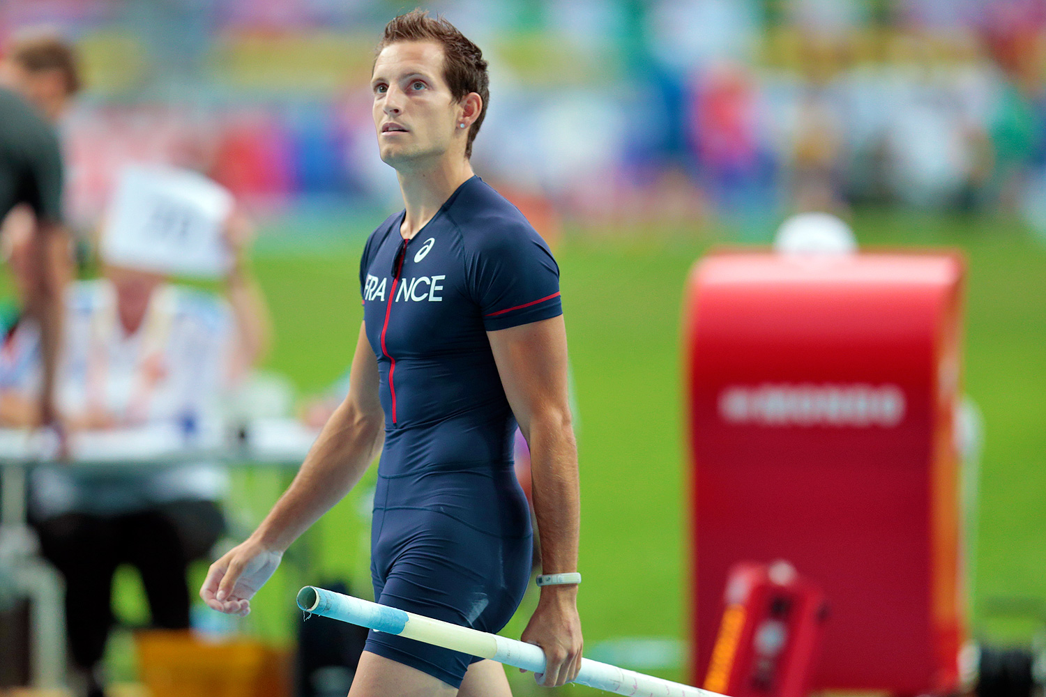 Renaud Lavillenie on 14th IAAF World Championships in Athletics